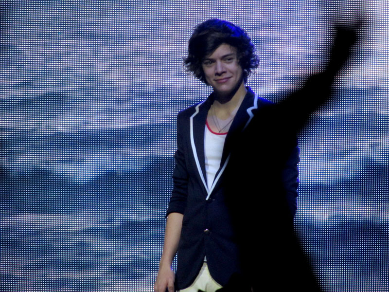 Harry Styles, One Direction, Clyde Auditorium, Glasgow, Saturday 14 January 2012